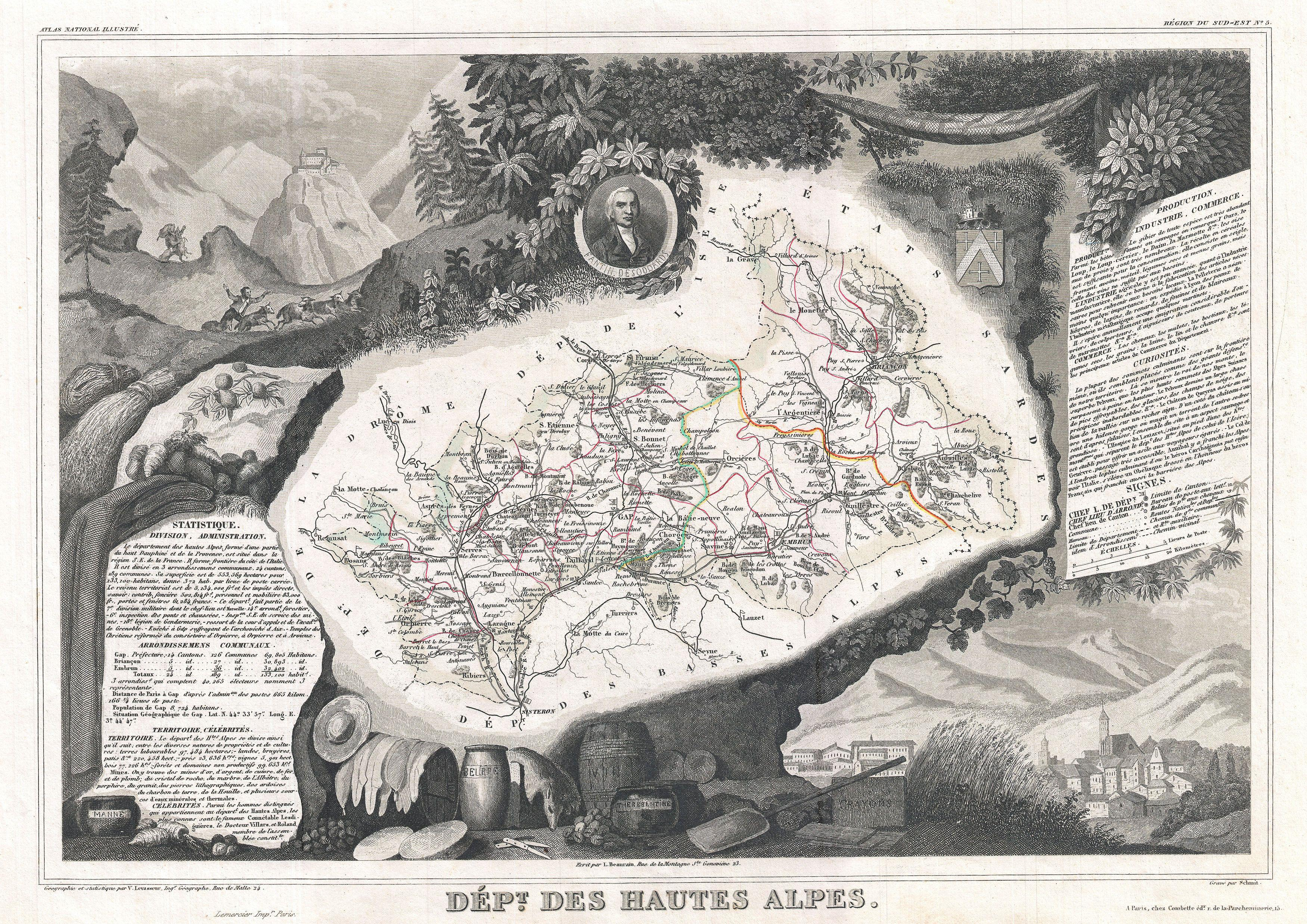 This is a fascinating 1857 map of the French department of Hautes Alpes, France. This area of France is known for its production of Coteaux and Collines Rhodaniennes wines. The area is also famous for its chestnuts. The whole is surrounded by elaborate decorative engravings designed to illustrate both the natural beauty and trade richness of the land. There is a short textual history of the regions depicted on both the left and right sides of the map. Published by V. Levasseur in the 1852 edition of his Atlas National de la France Illustree.